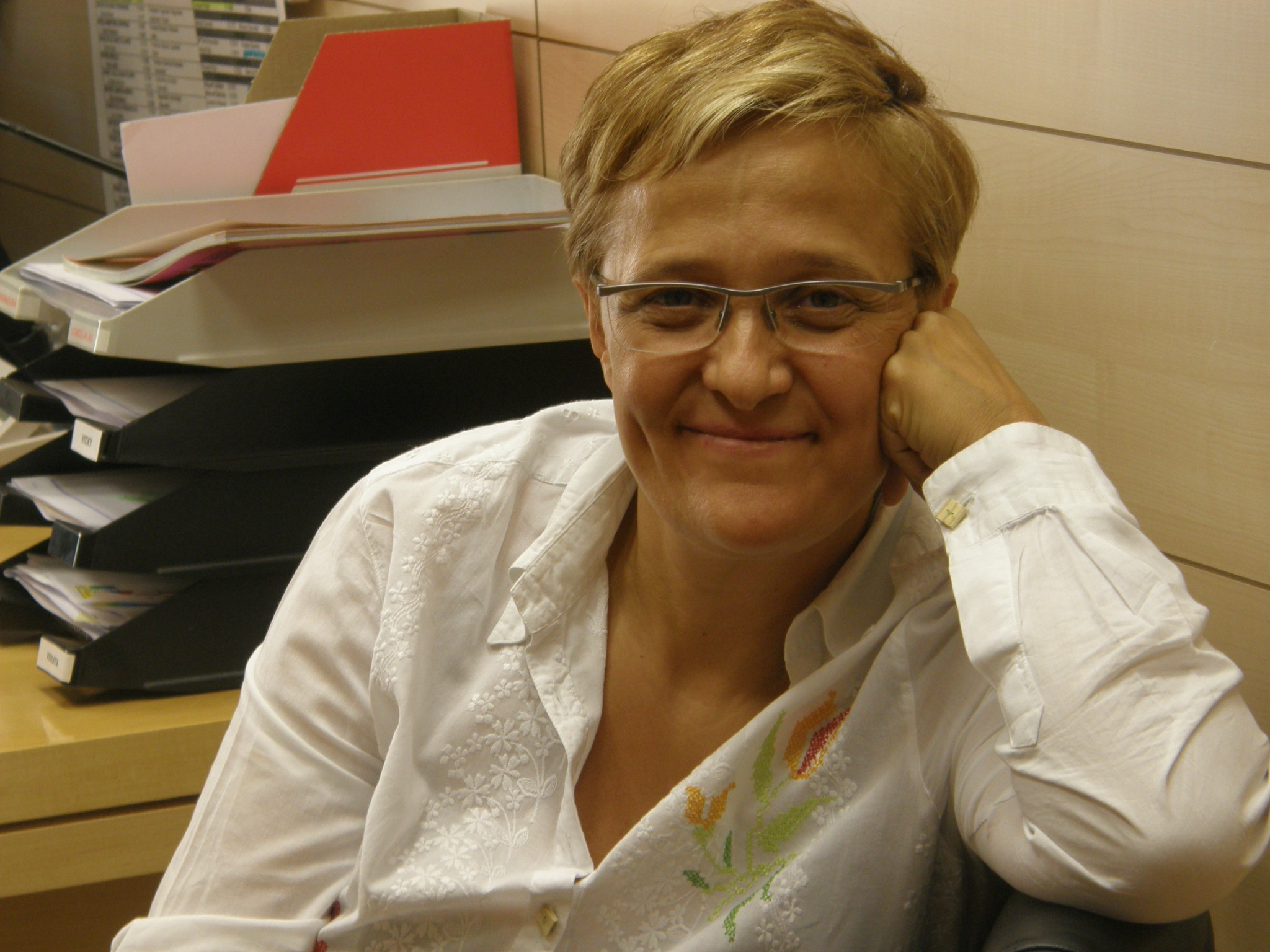 Angeles Alvarez en 2007 siendo concejala del Ayto de Madrid